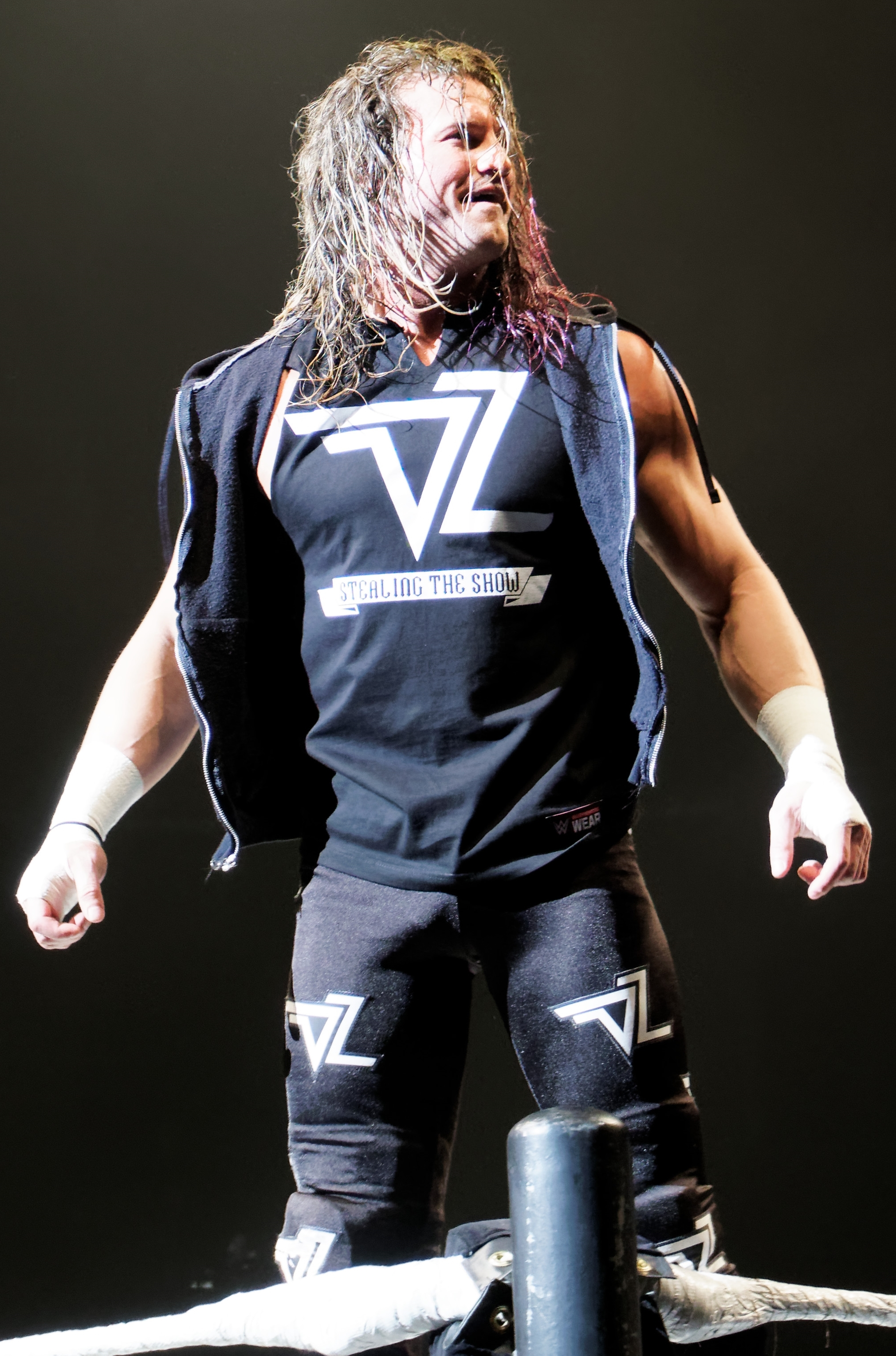 Dolph Ziggler in April 2016